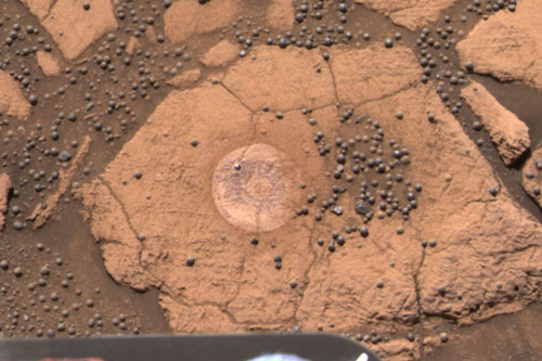 This image from the Mars Exploration Rover Opportunity's panoramic camera is an approximate true-color rendering of the exceptional rock called "Berry Bowl" in the "Eagle Crater" outcrop. The study of this "blueberry-strewn" area and the identification of hematite as the major iron-bearing element within these sphere-like grains helped scientists confirm their hypothesis that the hematite in these martian spherules was deposited in water. To separately analyze the mineralogical content of three main features within this area -- blueberries, dust and rock -- it was important that the rock abrasion tool's brush was able to rest on a relatively berry-free spot. The rock's small size and crowd of berries made the 10-minute brushing a challenge to plan and execute. The successful brushing on the target whimsically referred to as "Near Empty" on the rover's 48th sol on Mars left a dust-free impression for subsequent examination by the rover's spectrometers. No grinding was necessary on the rock because spectral data obtained on the dust-free surface were sufficient to verify that the rock's chemical composition differs significantly from the hematite-rich berries.